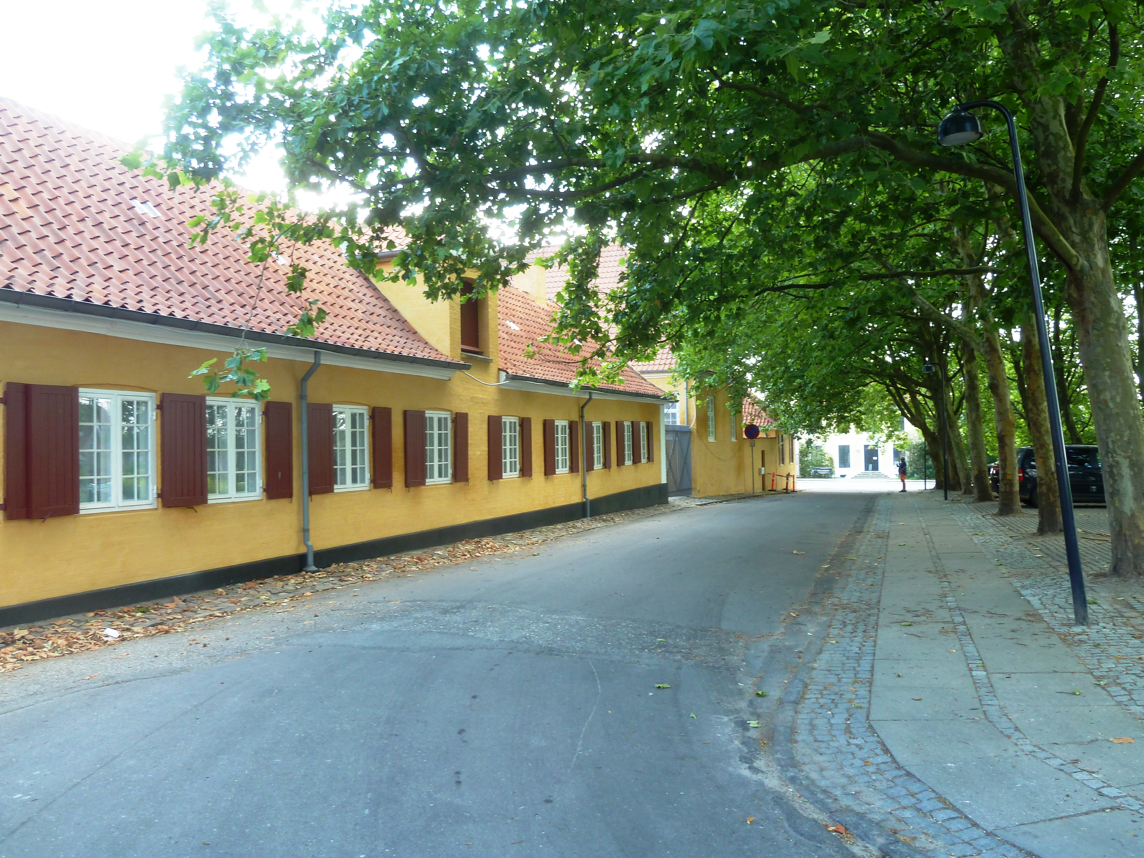 Part of the Jægersborg Barracks complex in Gentofte Municipality, Copenhagen, Denmark